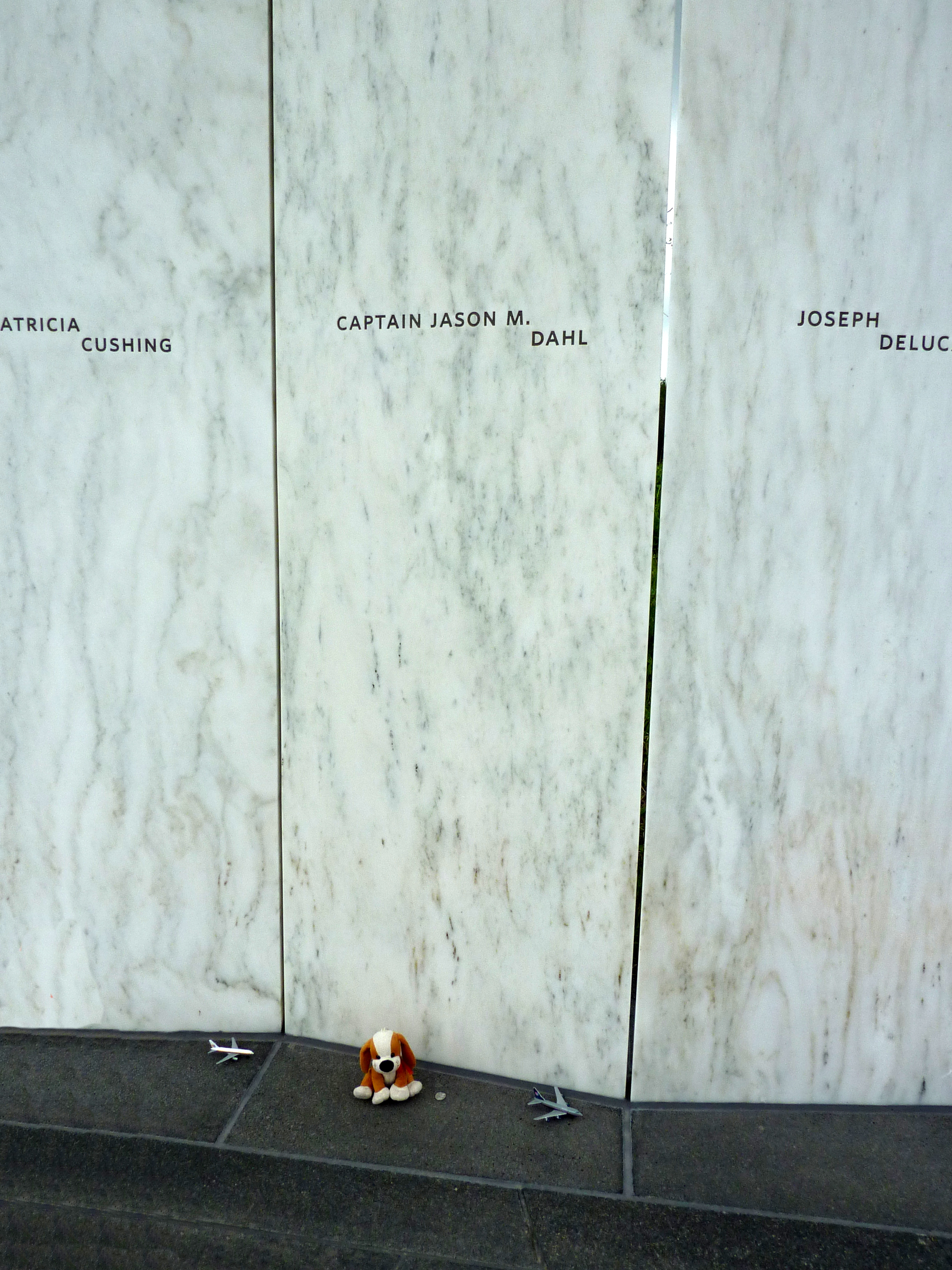 Tribute items and inscribed marble panels for Patricia Cushing, Captain Jason M. Dahl and Joseph DeLuca at the Wall of Names, Flight 93 National Memorial